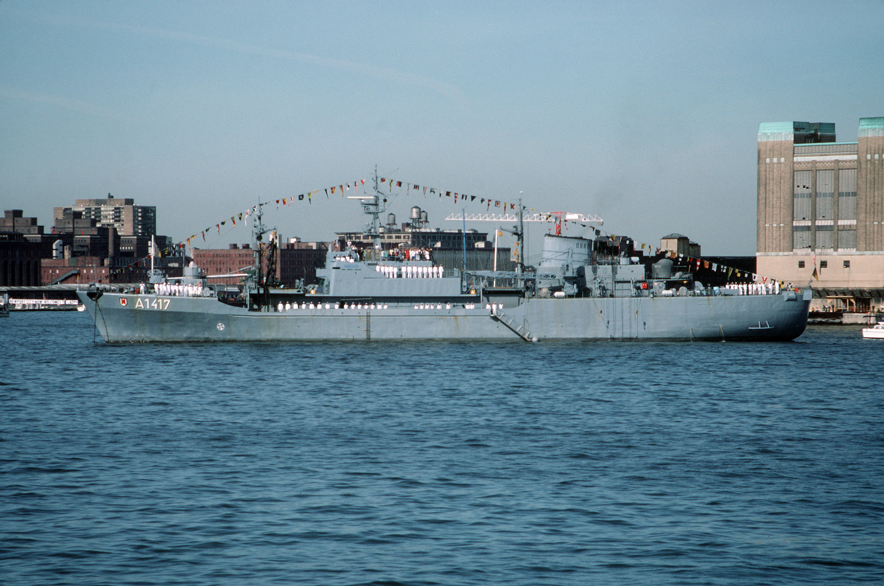 Crew members aboard the West German Navy Type 701 Lüneburg-class support ship FGS Offenburg (A 1417) man the rails during the International Naval Review at New York harbour (USA) on 4 July 1986.